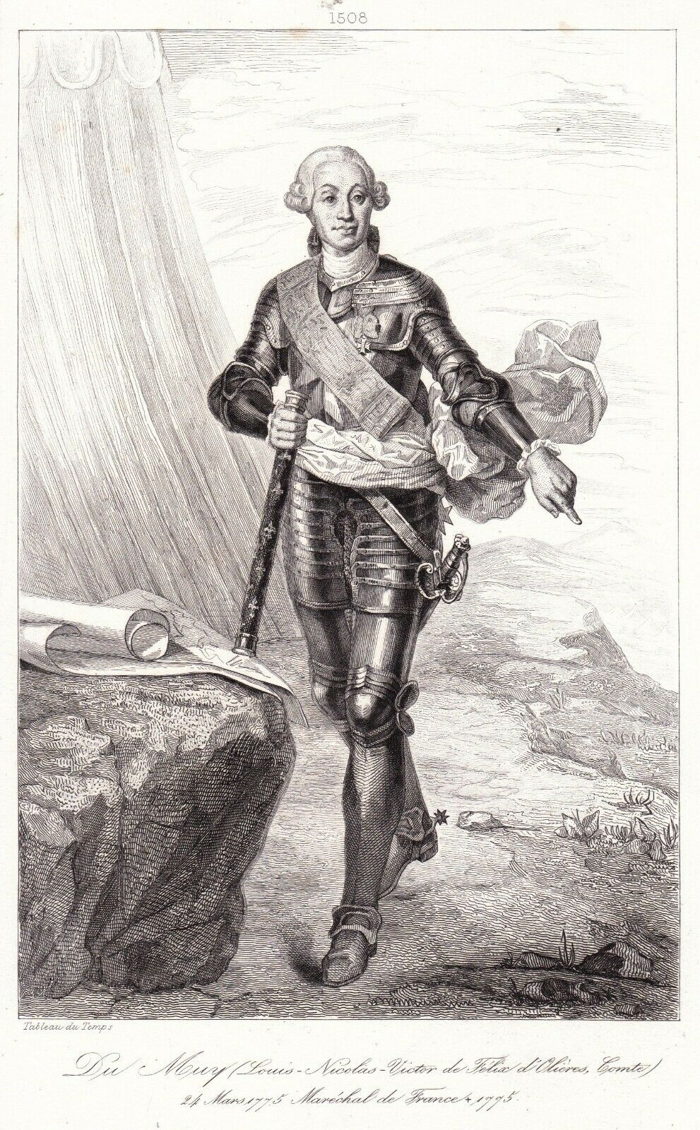 Louis Nicolas Victor de Félix d'Ollières, comte du Muy, comte de Grignan, was a military and statesman in France. 1711-1775.